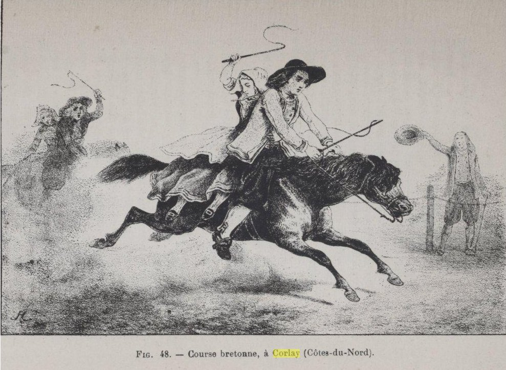 Horseracing in Corlay, Brittany, France. Published in Le cheval et ses races : Histoire des Races à travers les siècles et Races actuelles... by Pierre Mégnin, 1895